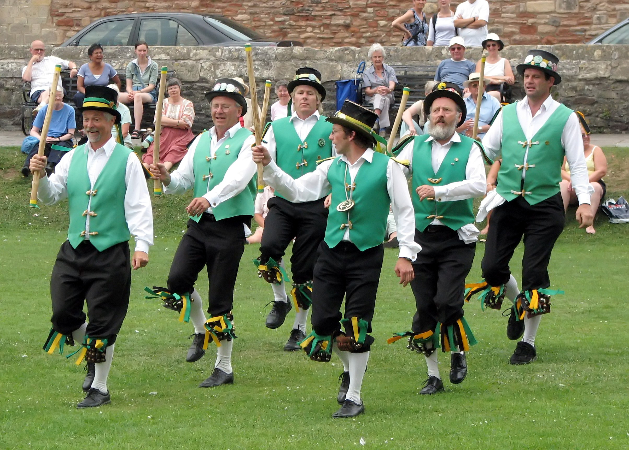 Morris dancing in the grounds of Wells Cathedral, Wells, England. (Exeter Morris Men) Photographed by Adrian Pingstone in July 2006 and placed in the public domain.